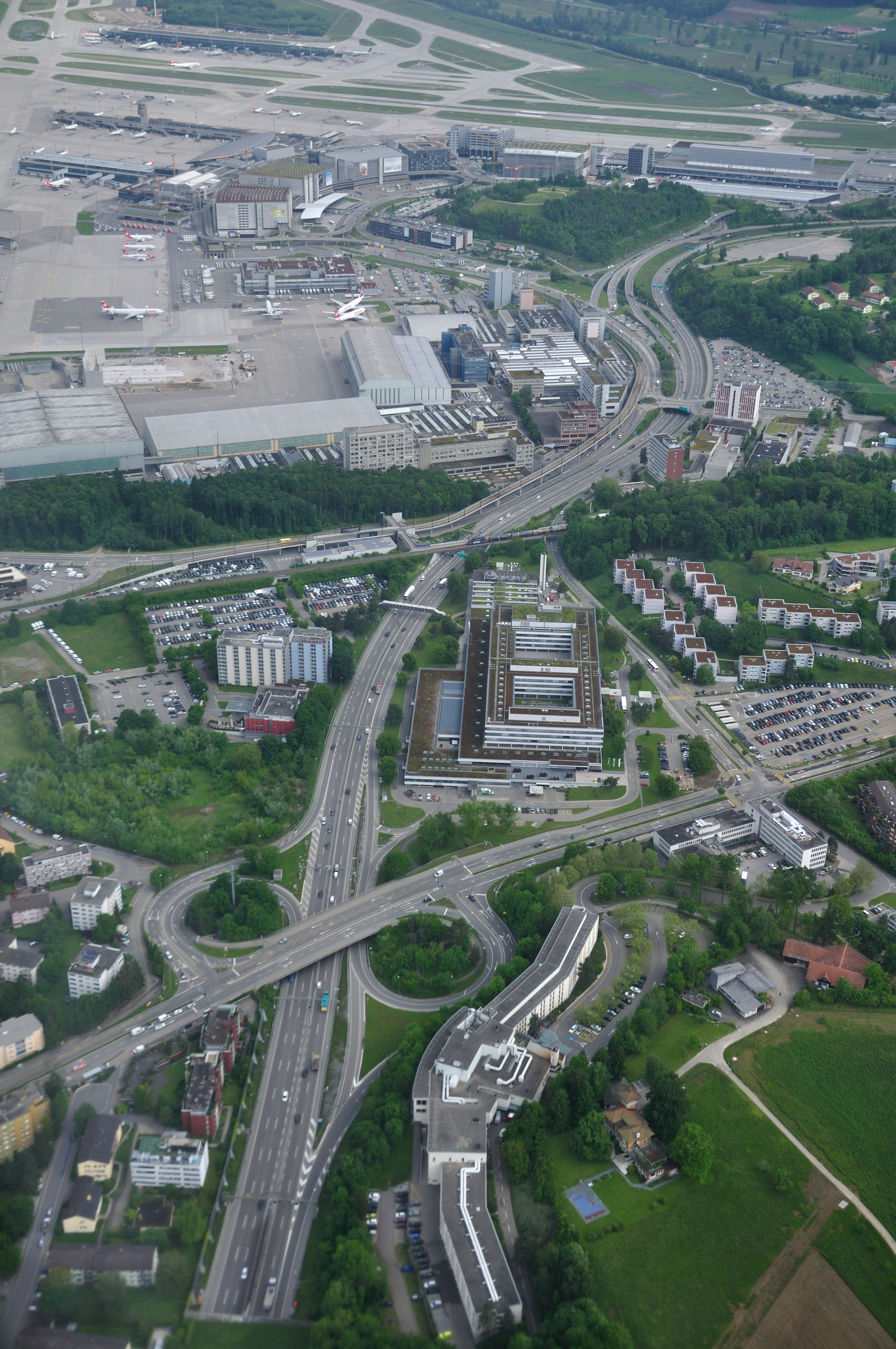 Switzerland, Canton of Zürich, aerial view of Zurich International Airport